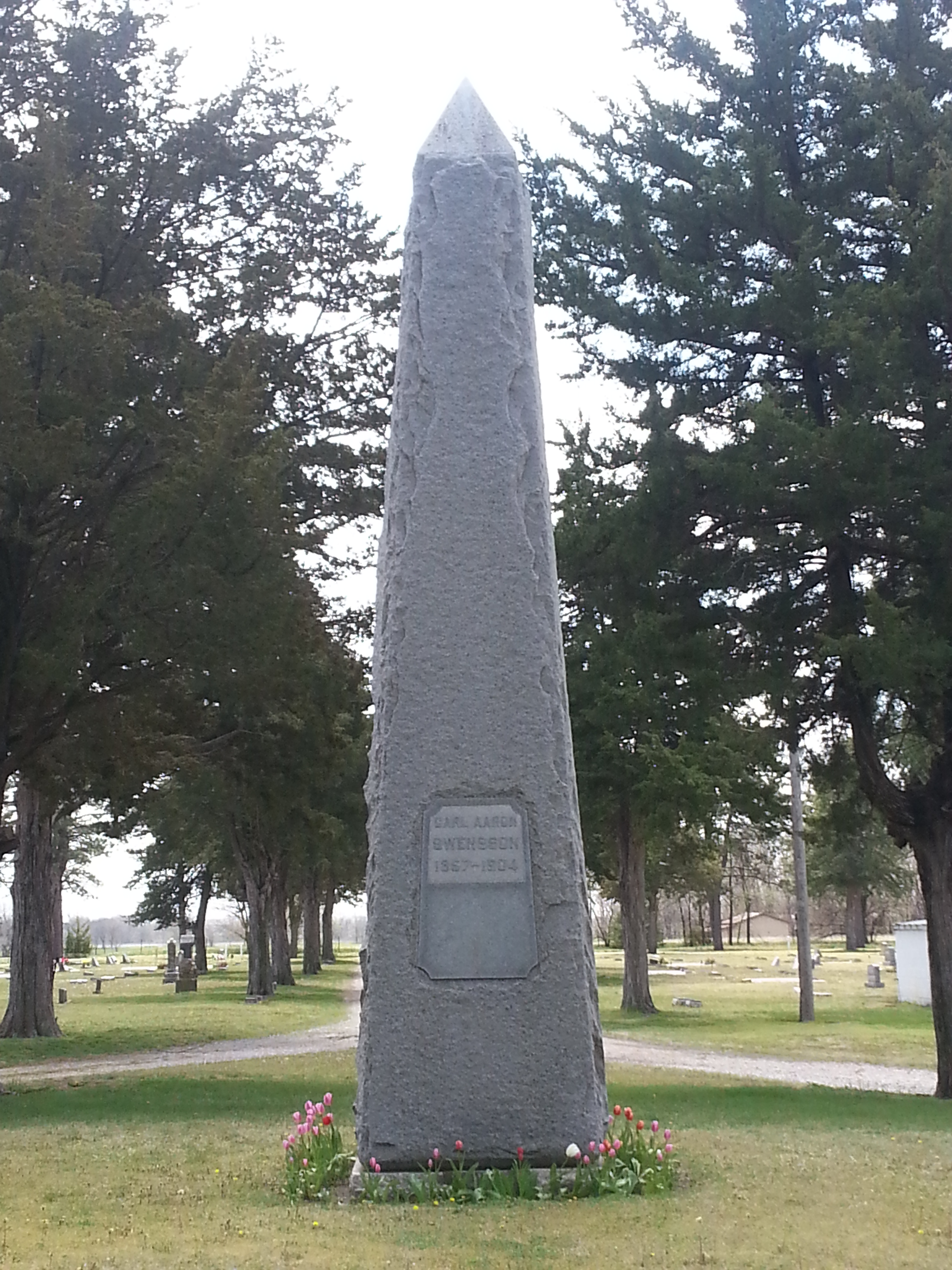 Carl Aaron Swensson's grave site in Elmwood Cemetery, Lindborg, Kansas.